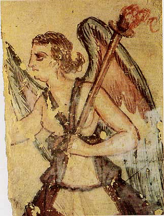 The Etruscan psychopomp Vanth, as depicted in a fresco in a tomb.